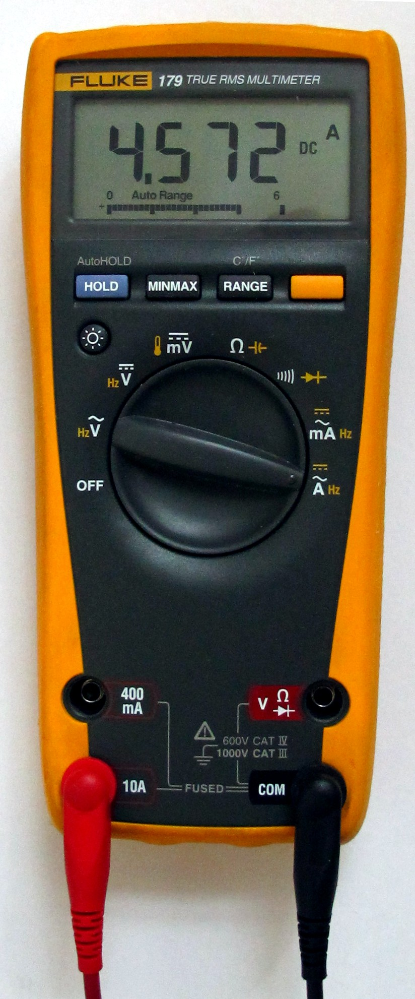 Digital multimeter, current measurement